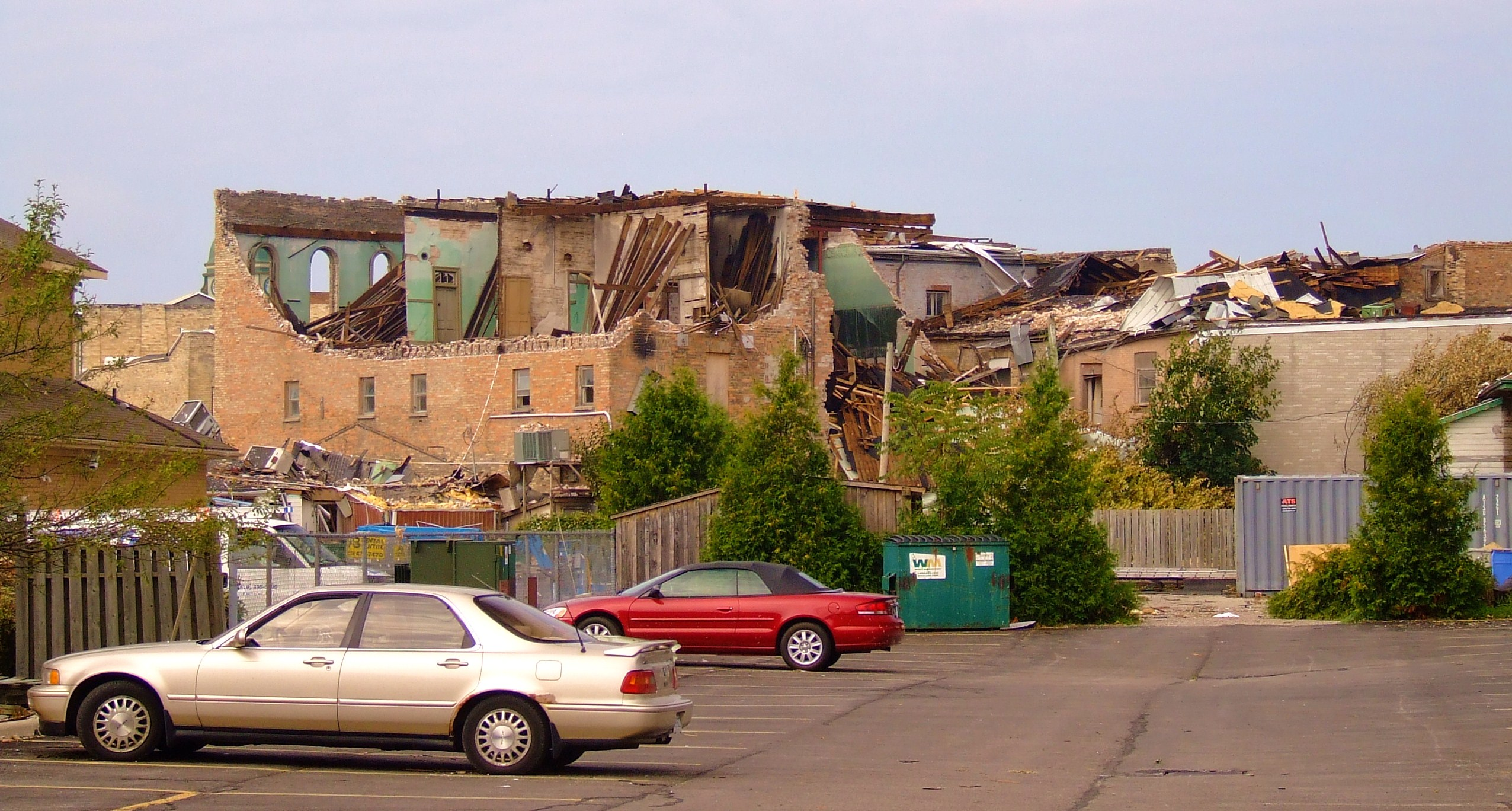 Damage to historic buildings at the east side of downtown Goderich, Ontario on August 27, 2011 following the tornado.